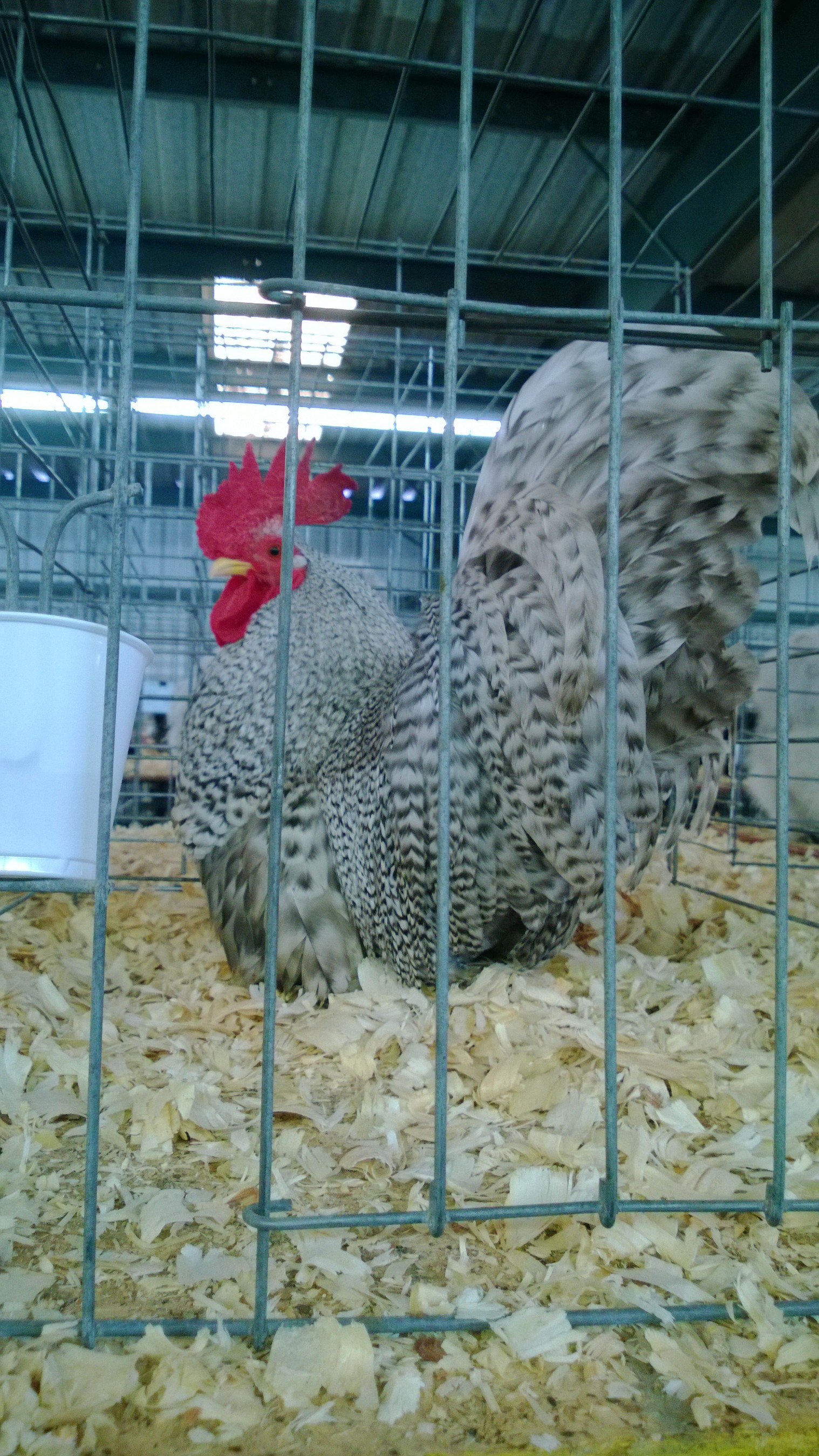 Photograph of a Japanese Barred bantam cock at the Lake City Florida poultry show